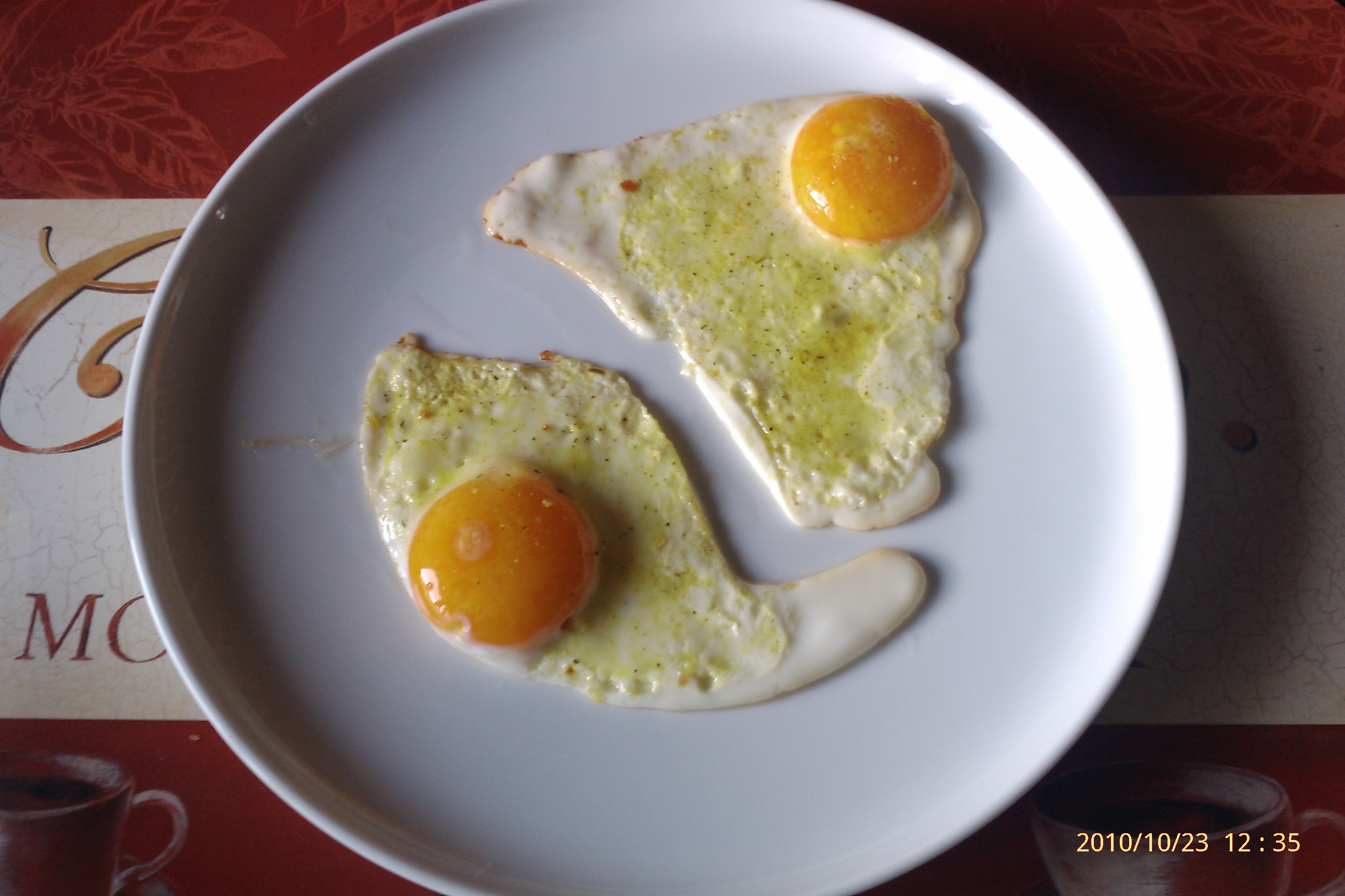 Two fried eggs on a white plate